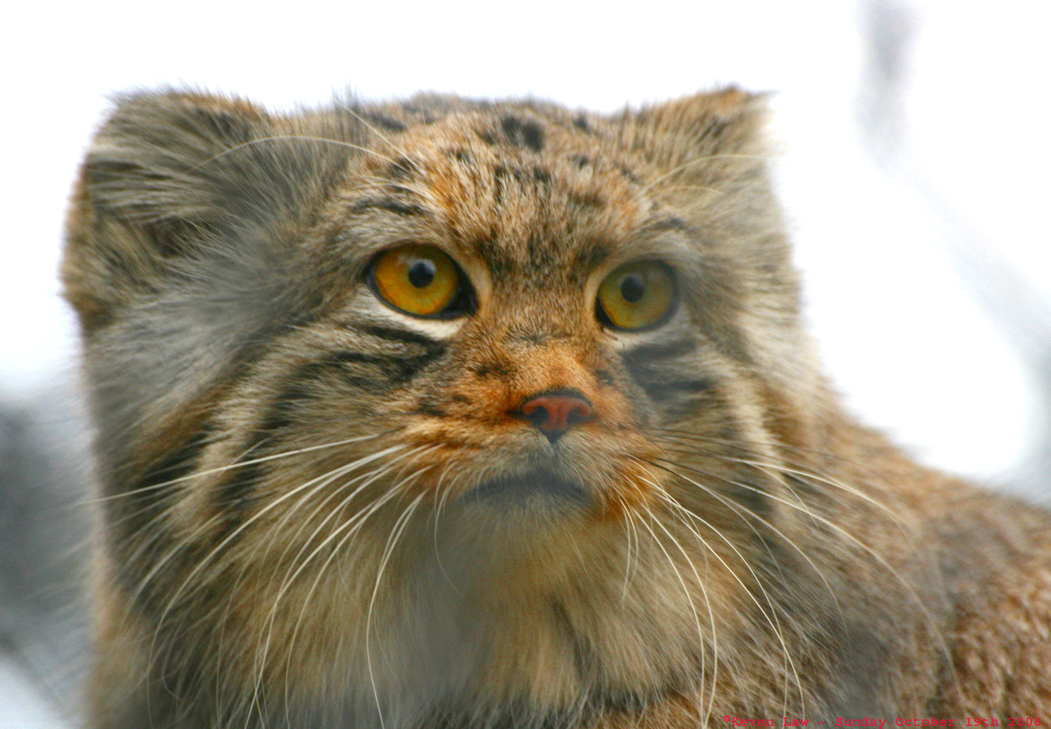 Pallas Cat - Howletts Wildlife Park, Kent, England - Sunday October 19th 2008.